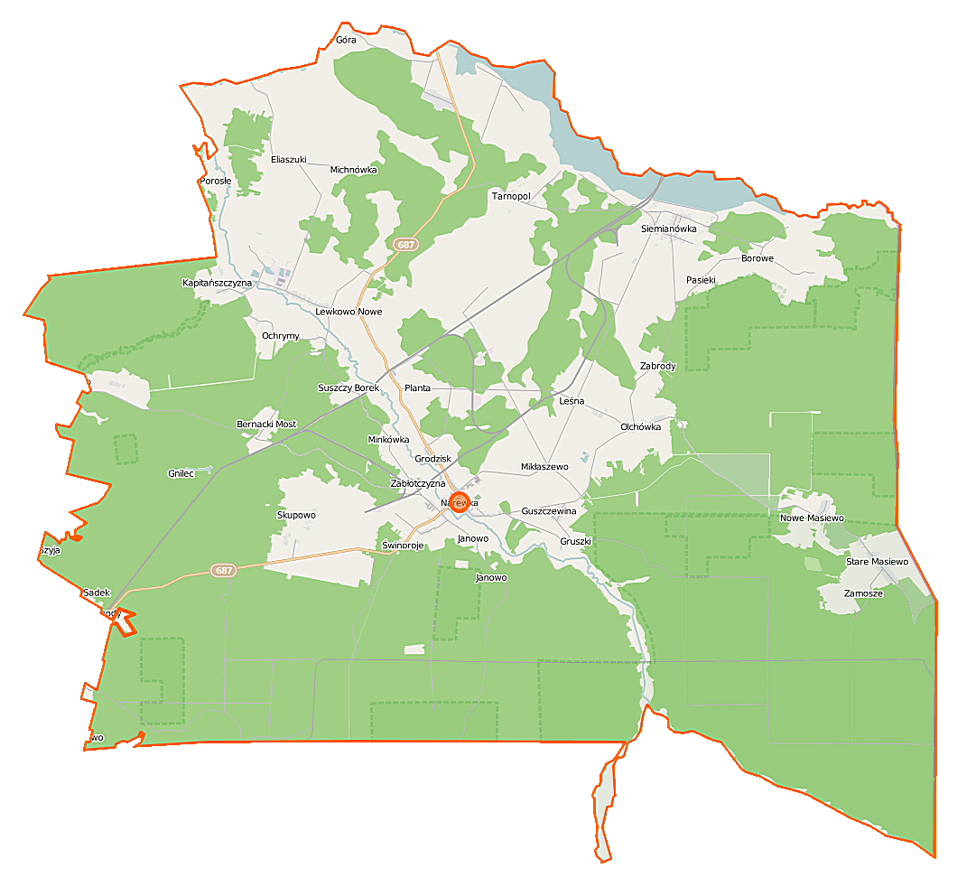 Map of Gmina Narewka, PolandThis map of Narewka (gmina) was created from OpenStreetMap project data, collected by the community. This map may be incomplete, and may contain errors. Don't rely solely on it for navigation.